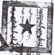 Inner Mongolia people's revolutionary party.stamp croped